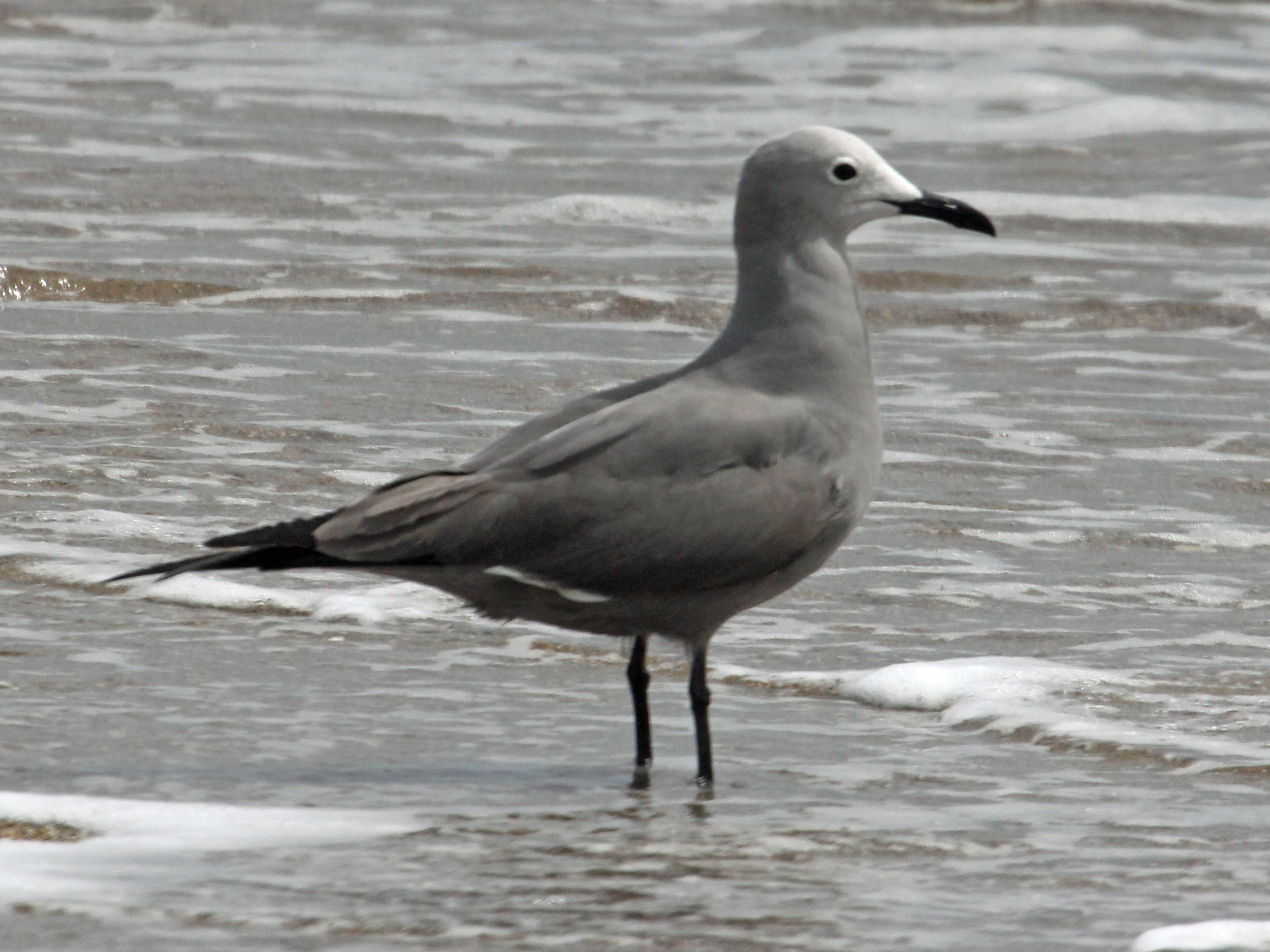 Gray Gull (Leucophaeus modestus) - La Laguna, Chile